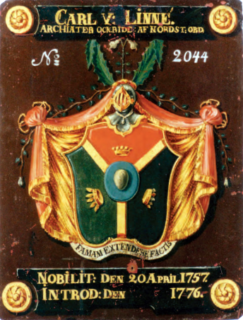 The Coat of Arms of Carl von Linné (Carolus Linnaeus) as depicted at the Swedish House of Nobility. Coat of Arms of Carl von Linné (Carolus Linnaeus), from his Letter of Nobility. The crest is a twinflower, one of Linnaeus' favourite plants. The shield is divided into thirds: red, black and green for the three kingdoms of nature (animal, mineral and vegetable) in Linnaean classification; in the center is an egg "to denote Nature, which is continued and perpetuated in ovo". Motto: FAMAM EXTENDERE FACTIS "to expand fame/reputation by deeds".